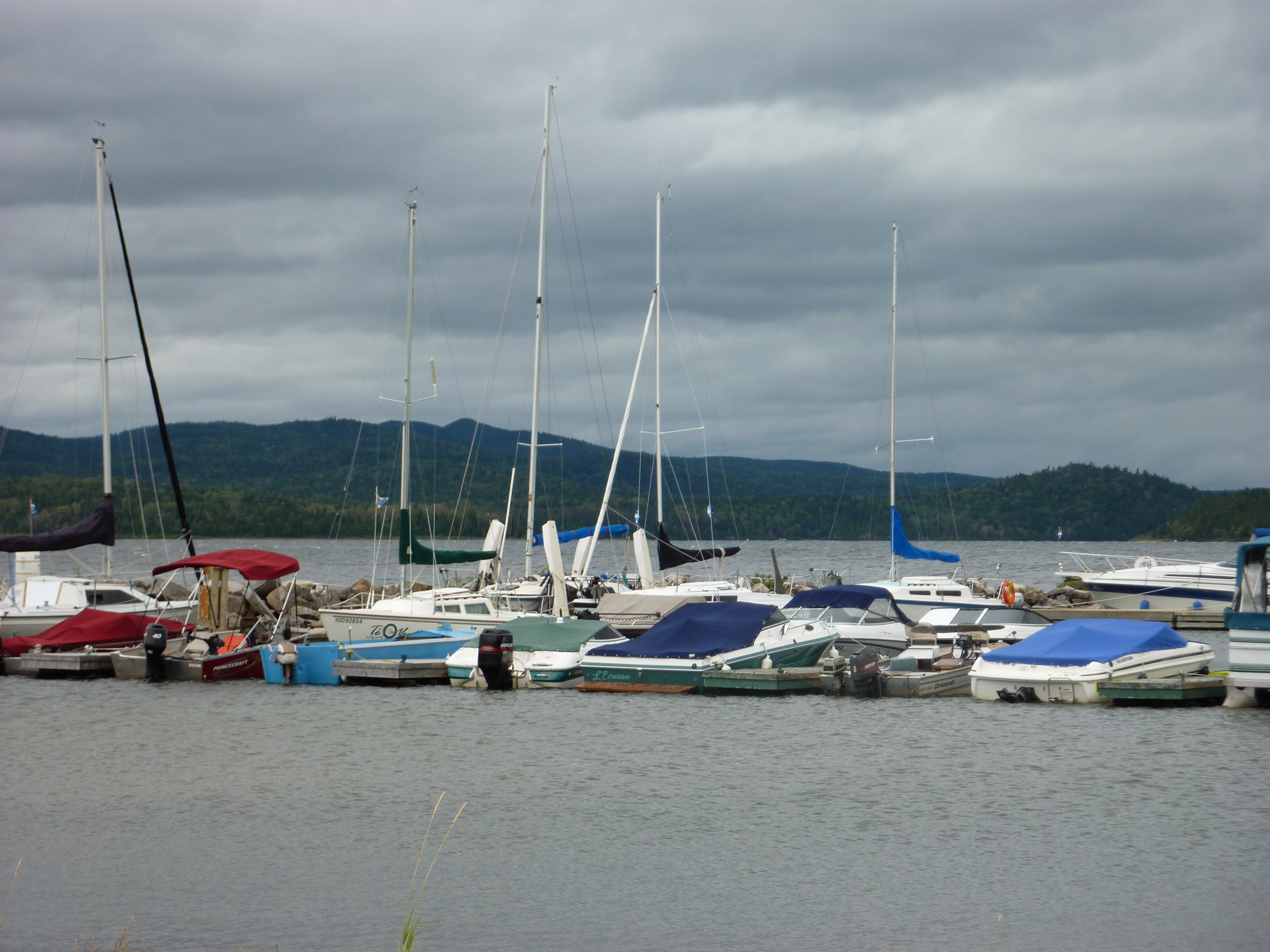 Marina at Val-Brillant, Qc